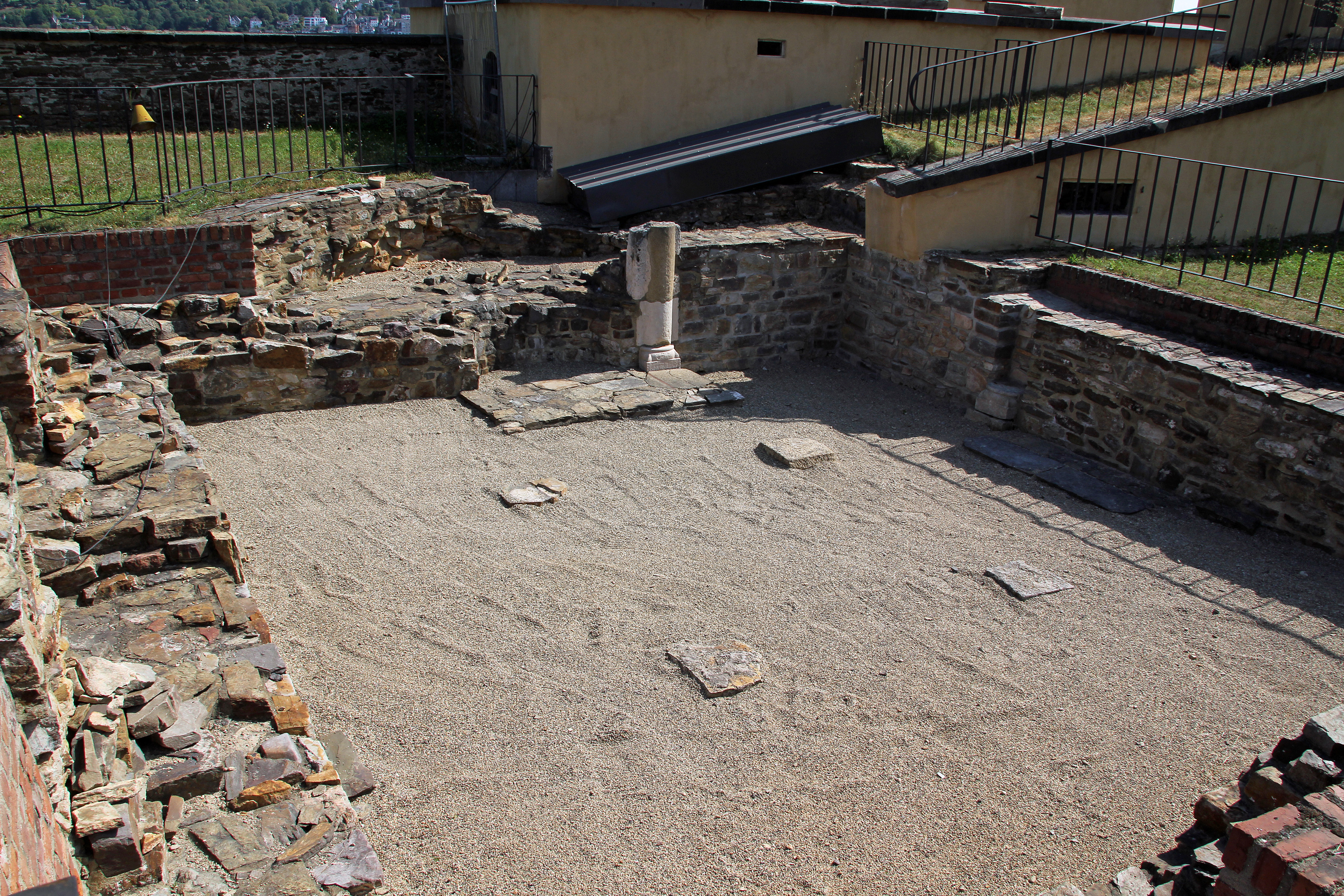 Archaeological site at Fort Großfürst Konstantin in Koblenz